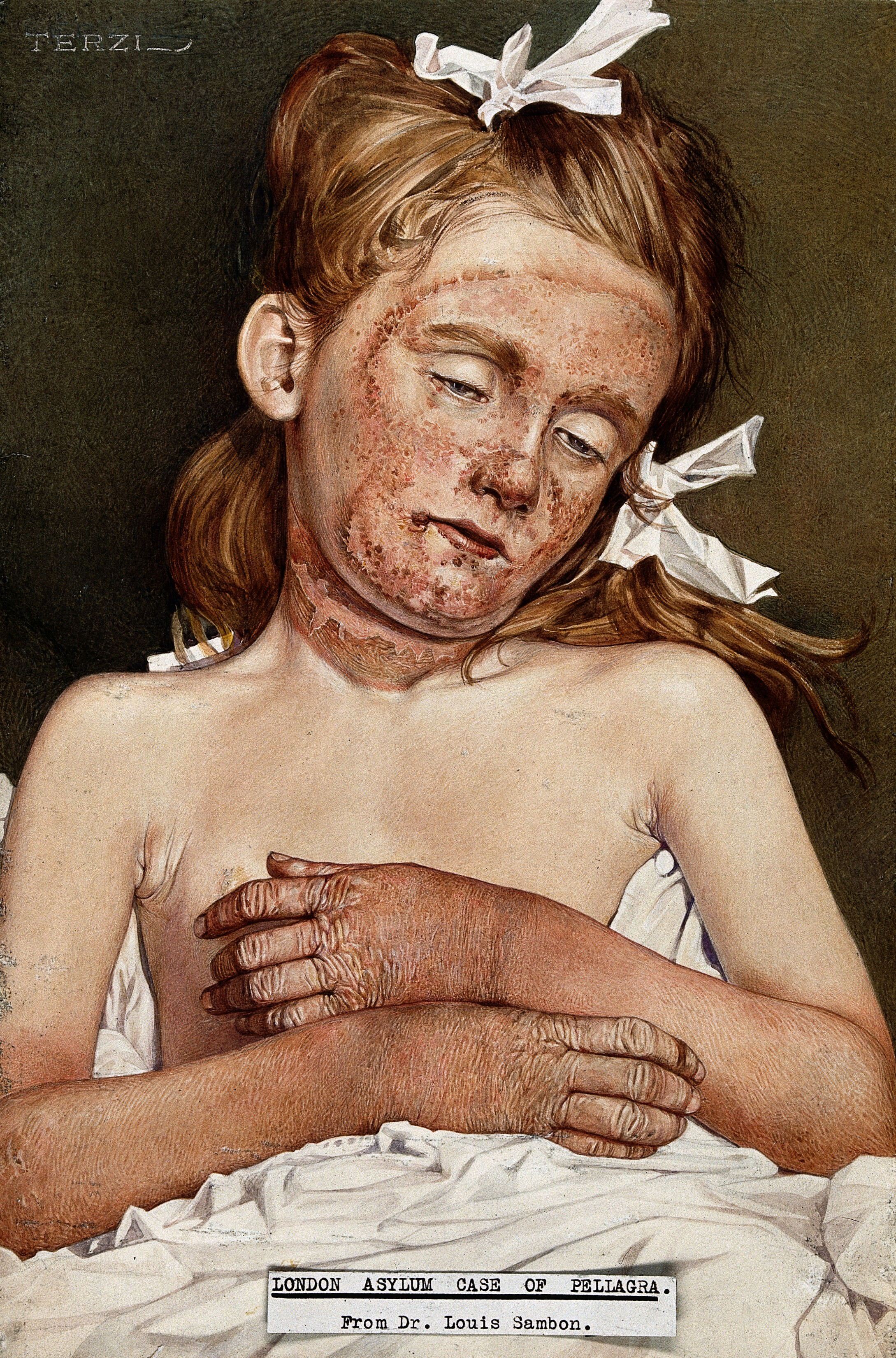 A girl in the London Asylum suffering from chronic pellagra. Watercolour by A.J.E. Terzi, ca 1925. Iconographic Collections Keywords: Amedeo John Engel Terzi